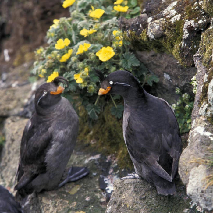 Alaska Maritime National Wildlife Refuge Photo: Art Sowls